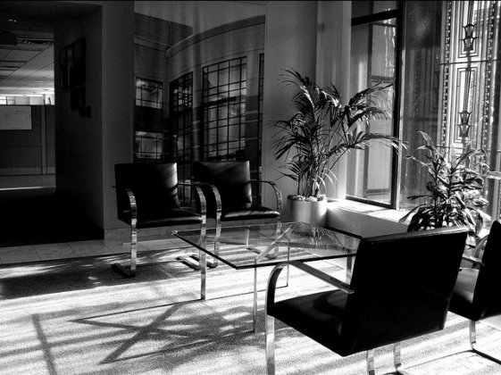 Albert Kahn Associates office at thge Albert Kahn Building in downtown Detroit, Michigan